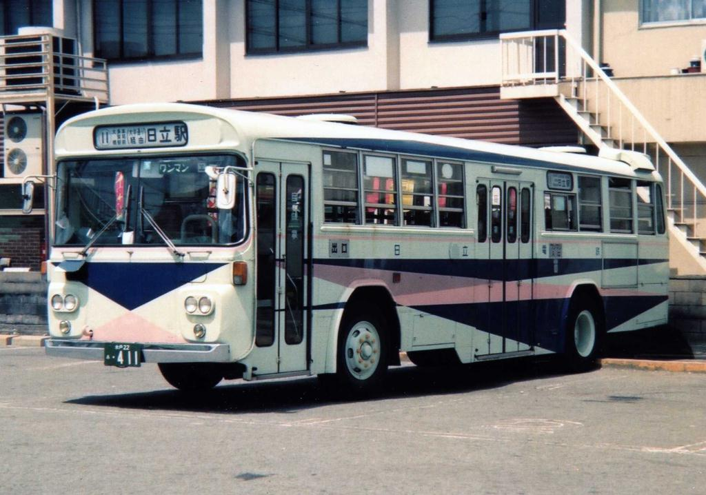 Hitachi Electric Railway Nissan Diesel K-U31L at Johoku-Ota Sta.